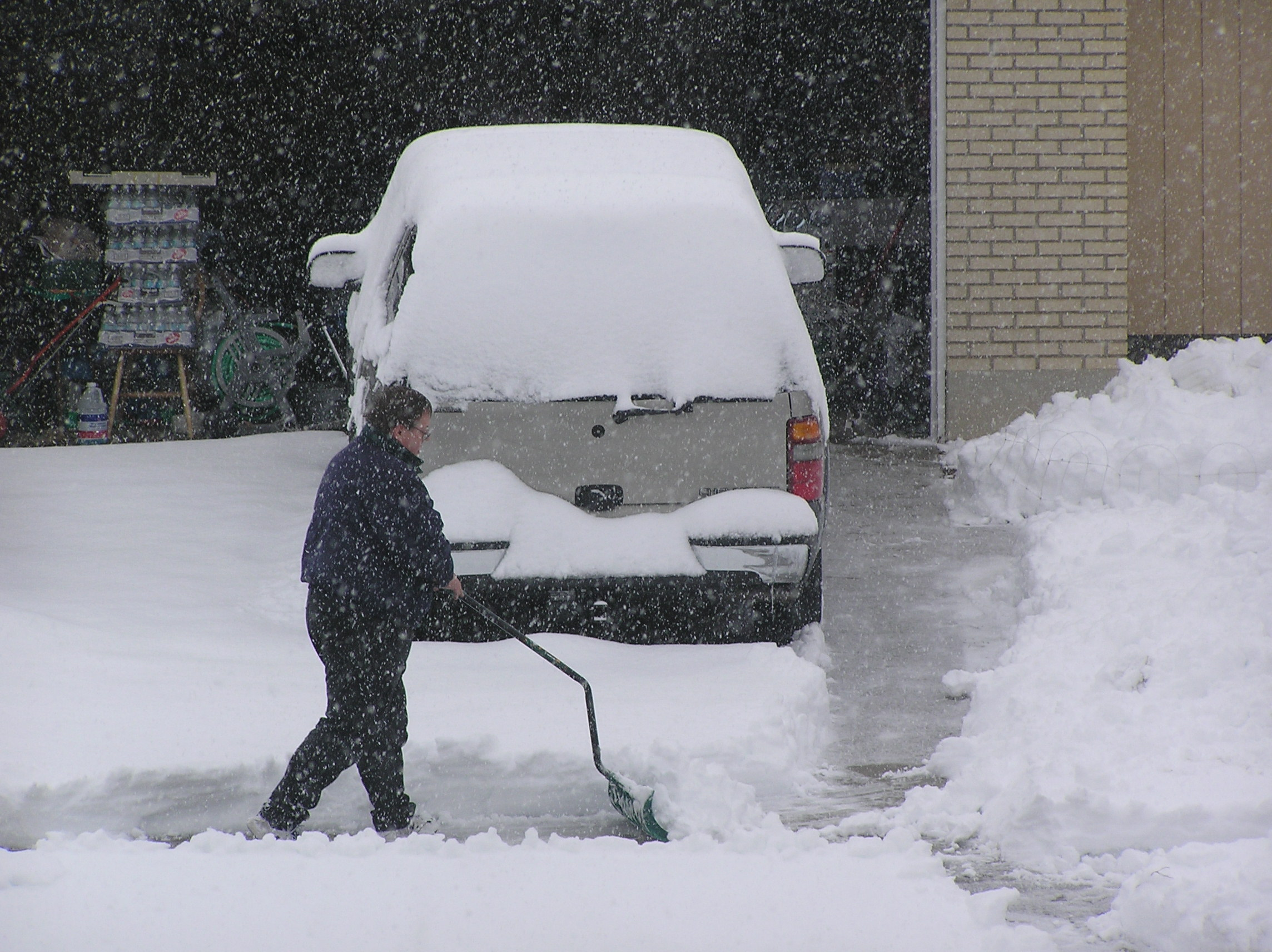 Neighbor shoveling snow from their driveway during a major snowstorm in December 2003 in Utah.